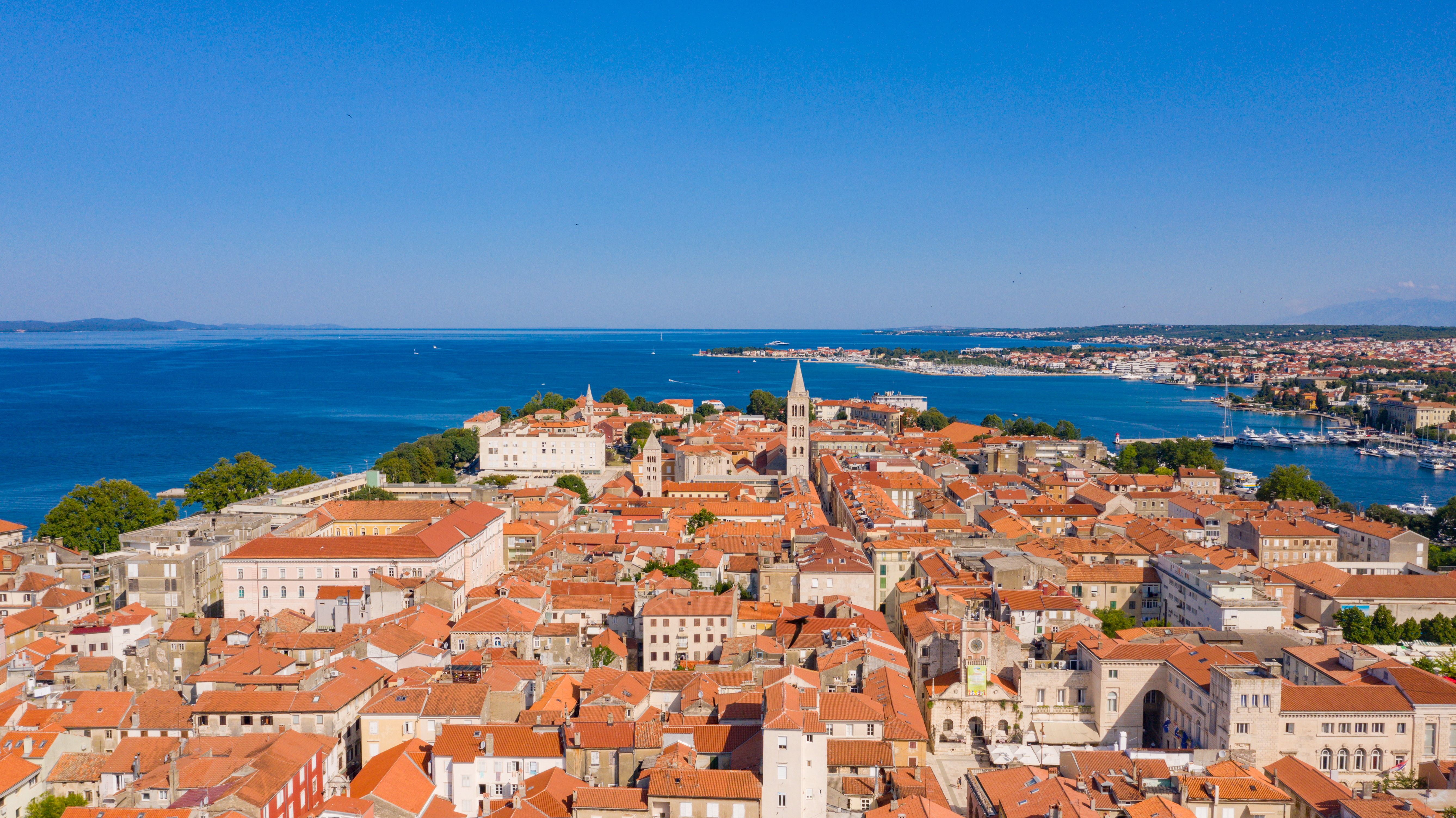 Aerial view of the historical center of Zadar, Croatia